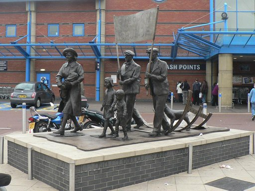 Jarrow: the Spirit of Jarrow This bronze was unveiled in 2001 in the shopping centre car park, outside Morrison's supermarket entrance.